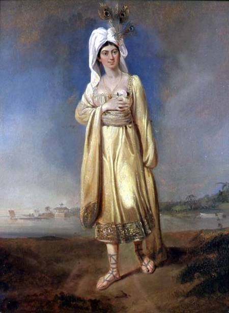 Princess Caraboo of Javasu (Mary Baker), 1817 (oil on panel) by Bird, Edward (1722-1819). Bristol City Museum and Art Gallery, #BAG63289